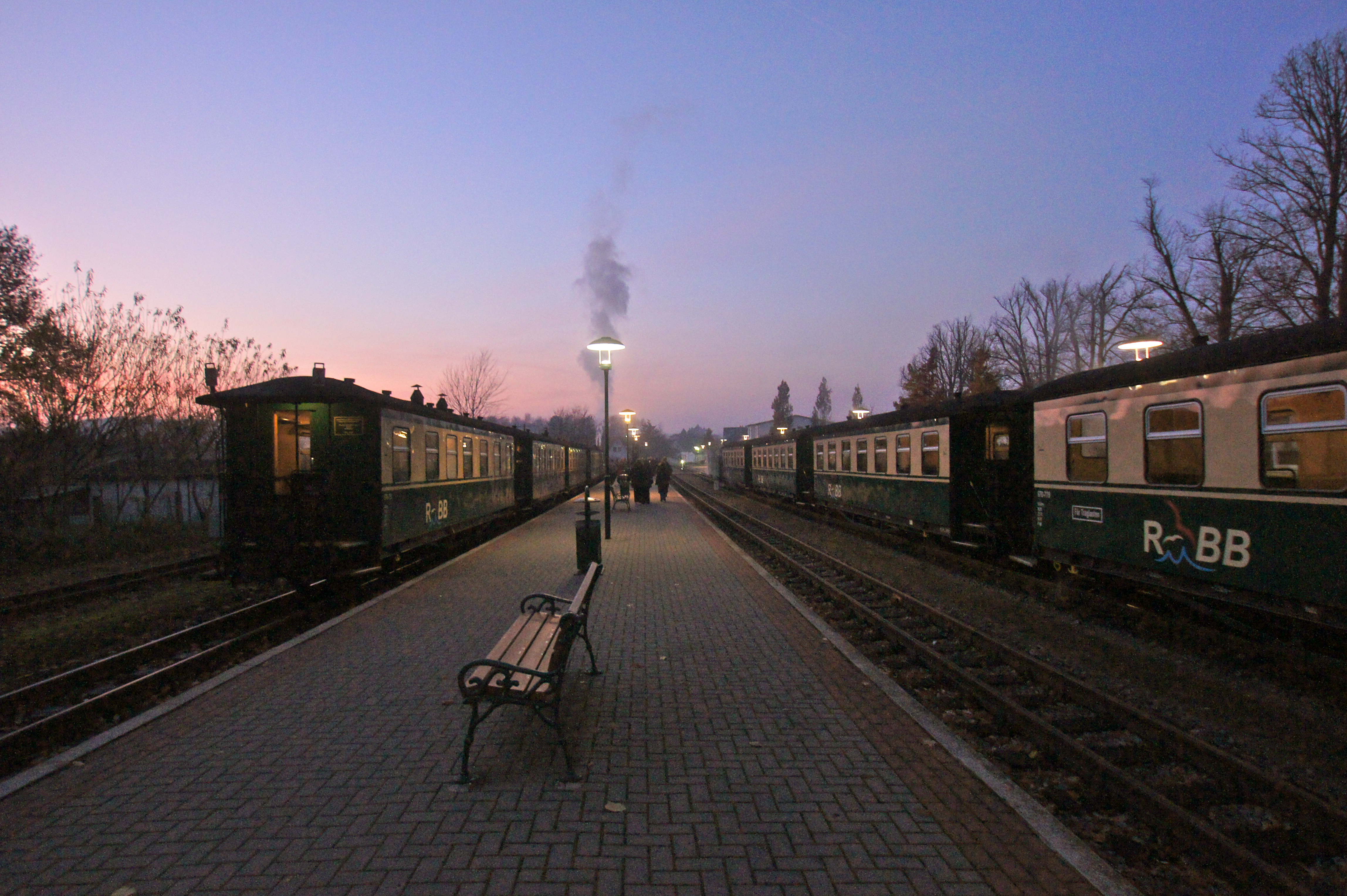 Binz, Germany: The Railway Station of the Rasender Roland in Paul Delvaux style